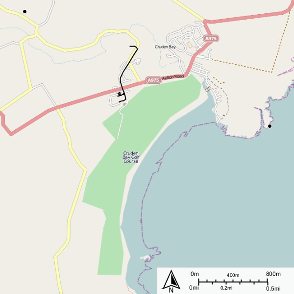 Cruden Bay Hotel Tramway (black) Created with